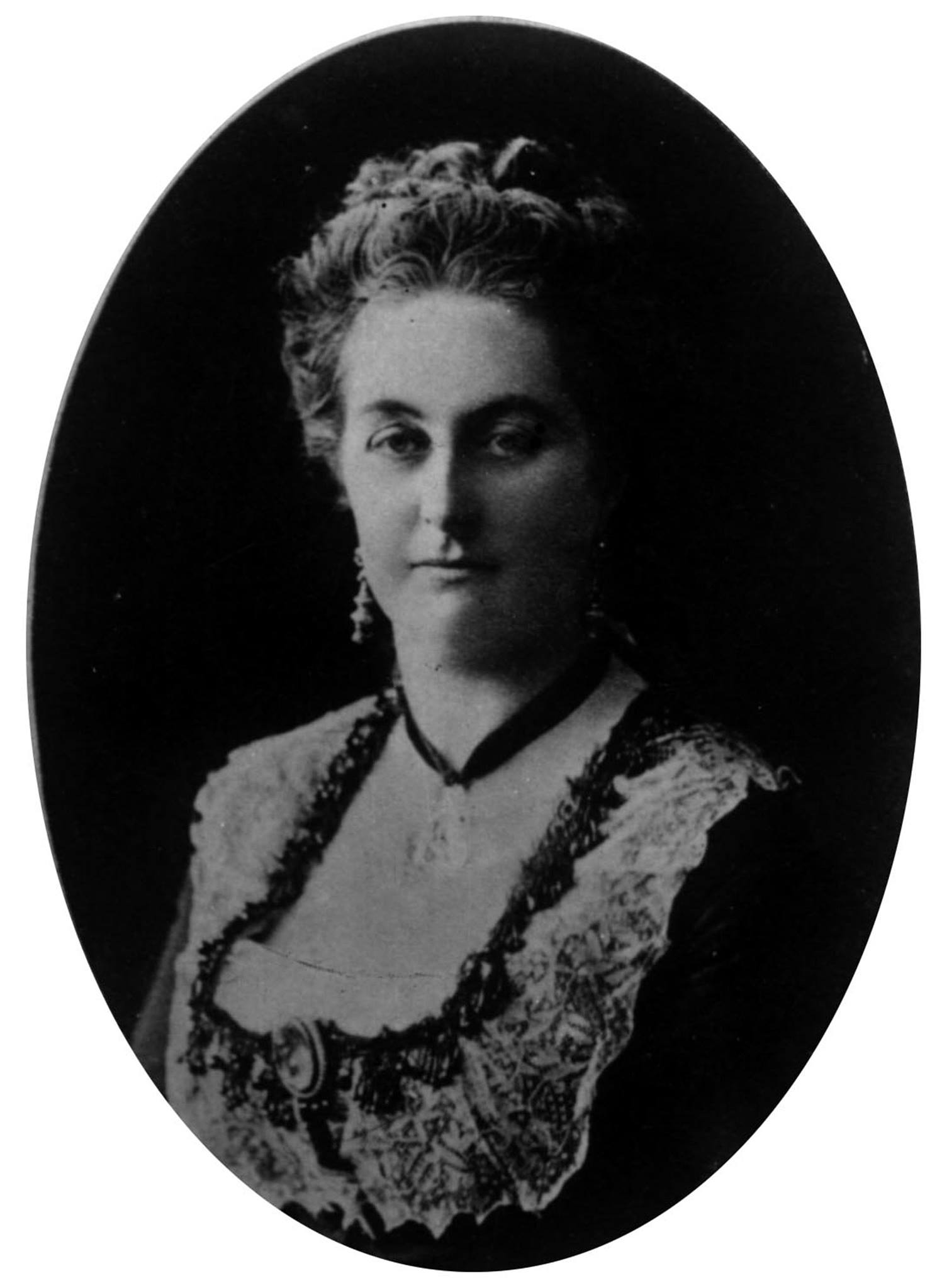 Elisa Lynch official portrait.